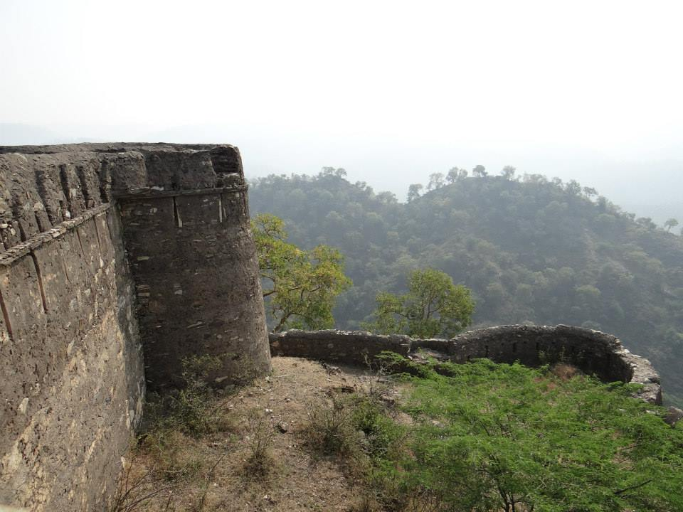 Old fort of Solanki, in Aravali hills in Jojawar. It's facing north and one gate facing east.